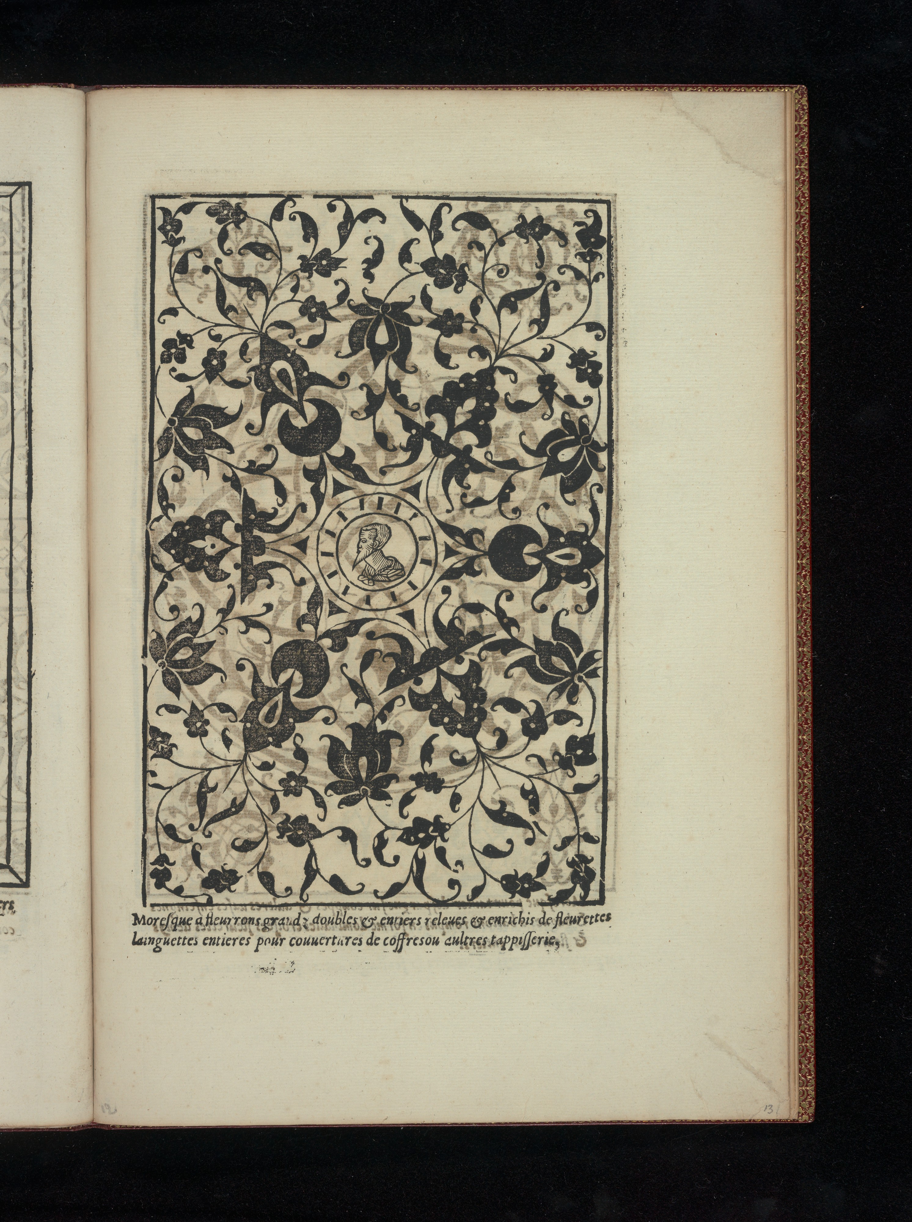 Book Ornament & Architecture; Books